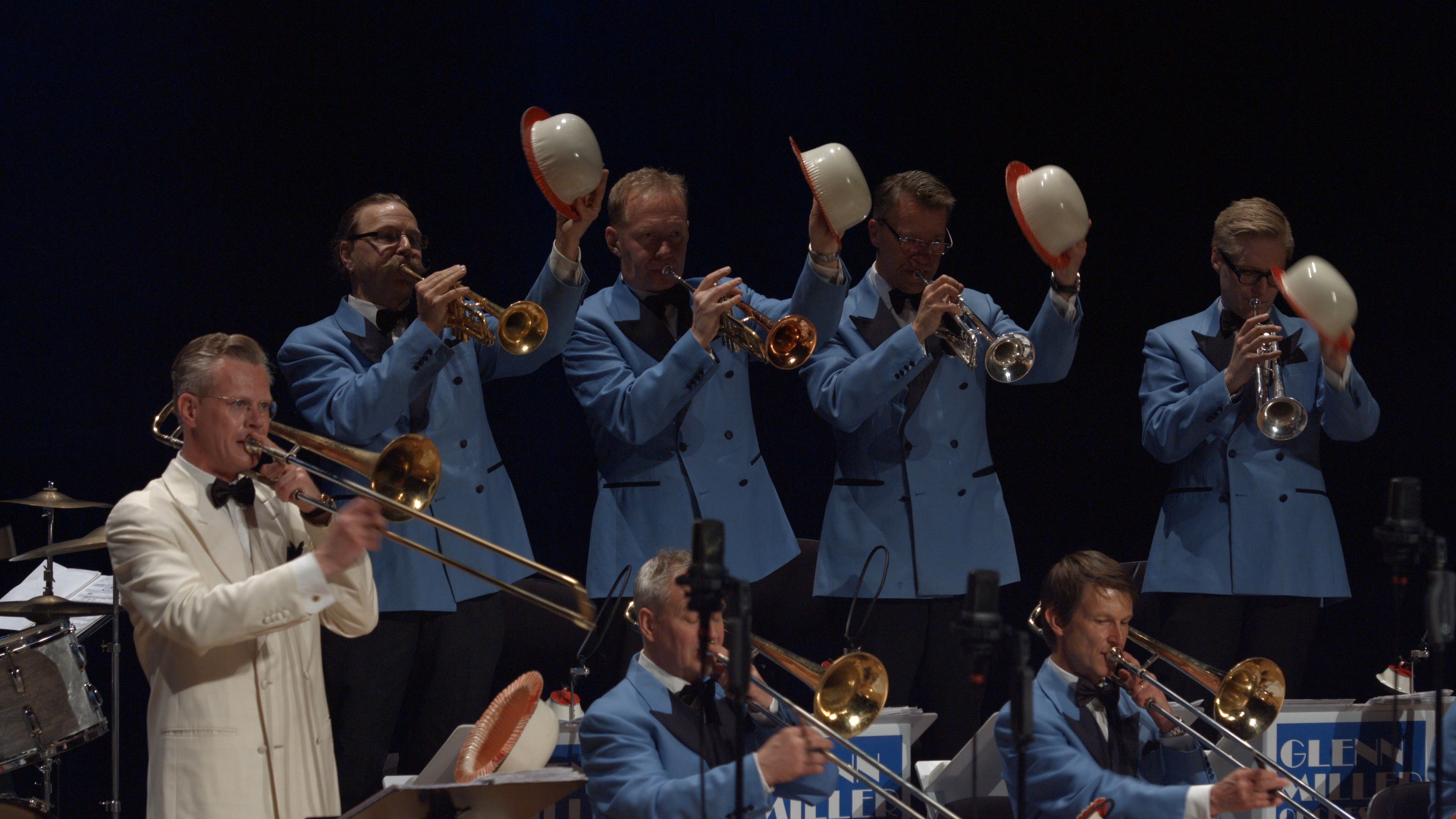 Glenn Miller Orchestra, Scandinavia